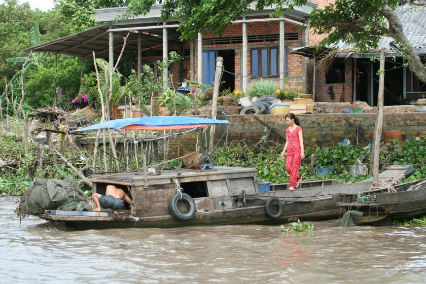 Waterside life in the Mekong Delta. Photo on Co Chien river opp from Vinh Long, taken 28 Feb 2007, on Canon handheld camera. Released to Public domain Mar 8 07.